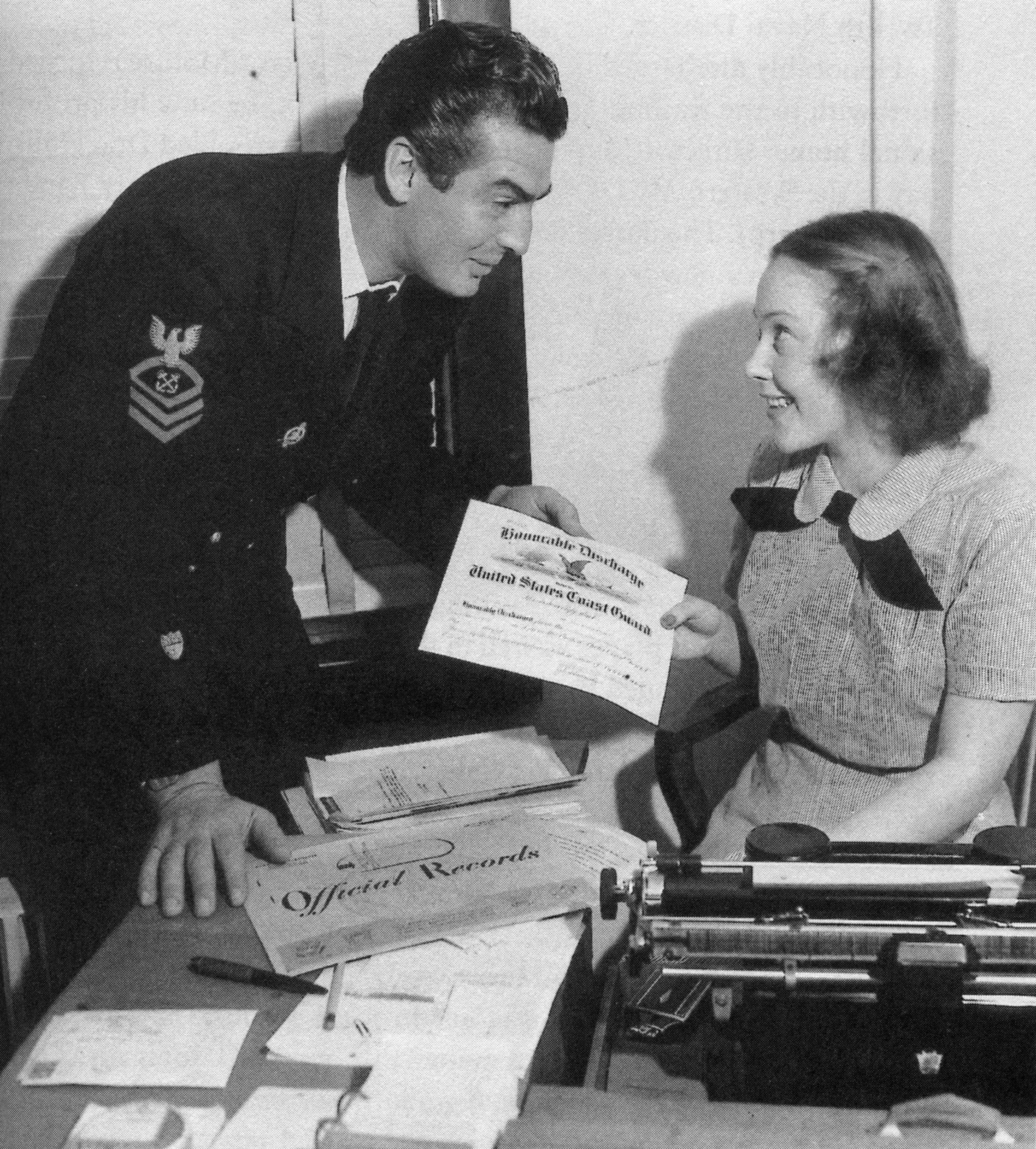 Victor Mature being discharged from the United States Coast Guard